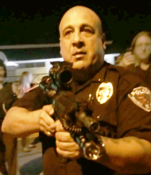 St. Ann Police Lieutenant points rifle at civillians in Ferguson, MO